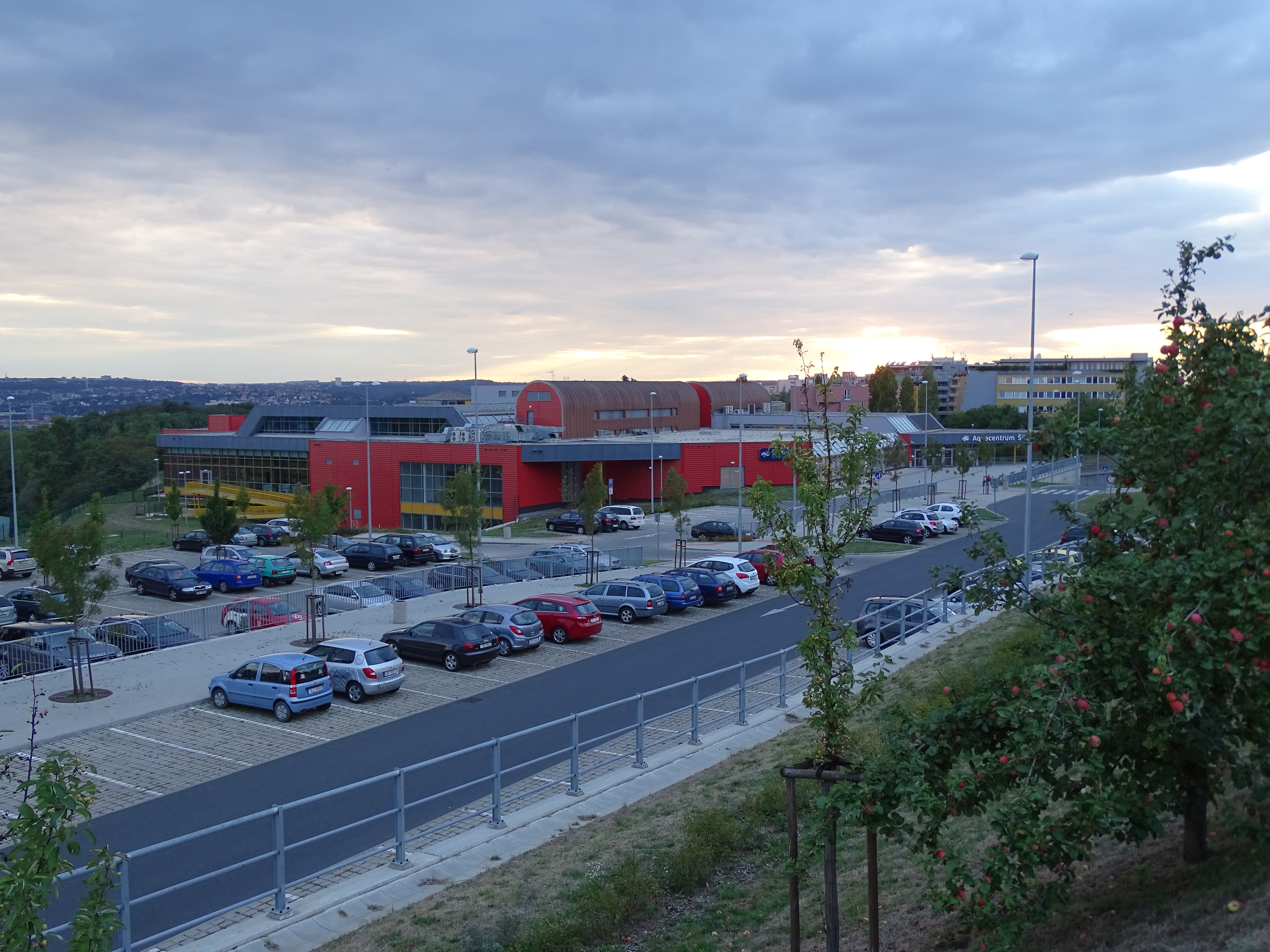 Prague-Troja, Czech Republic. Čimická 848/41, Aquacentrum Šutka.